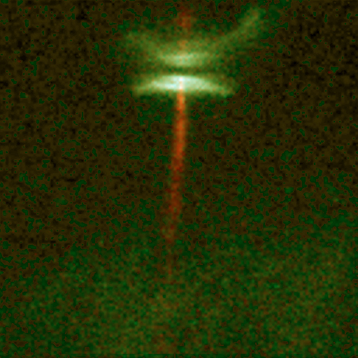 A reddish jet of gas emanates from the forming star HH-30, surrounded by a protoplanetary disk.